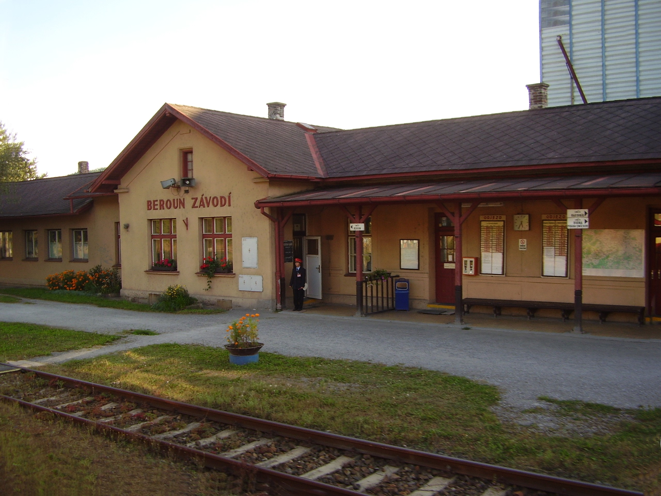 Train station Beroun-Závodí, Central Bohemian Region